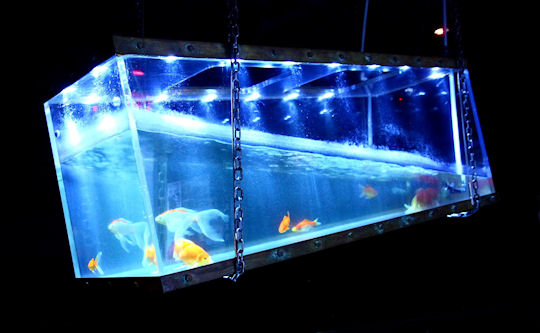 This is my own photo which I have taken for LPR as an intern.